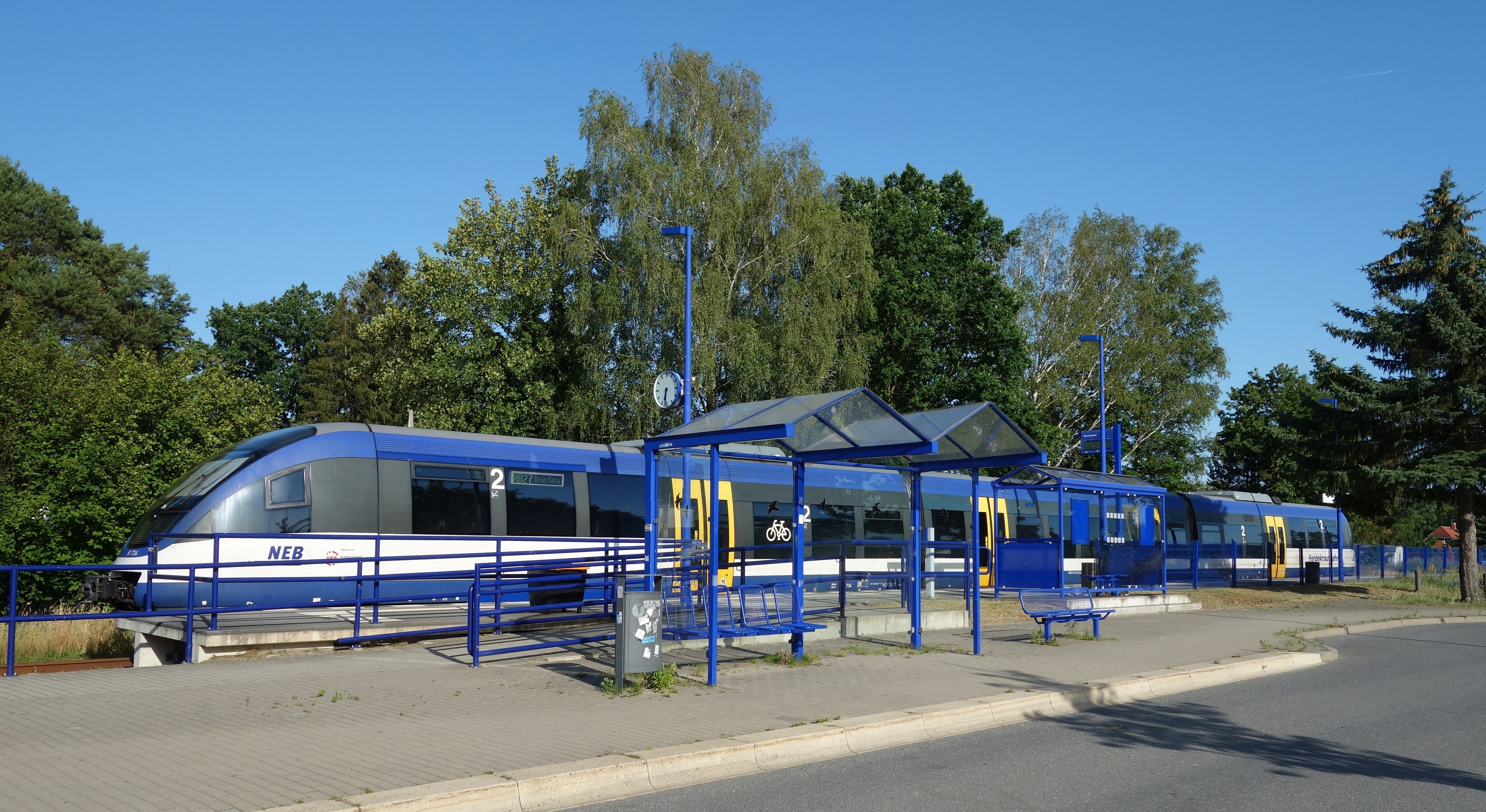 North-western view of the train station in Wensickendorf , Oranienburg municipality , Oberhavel district, Brandenburg state, Germany.